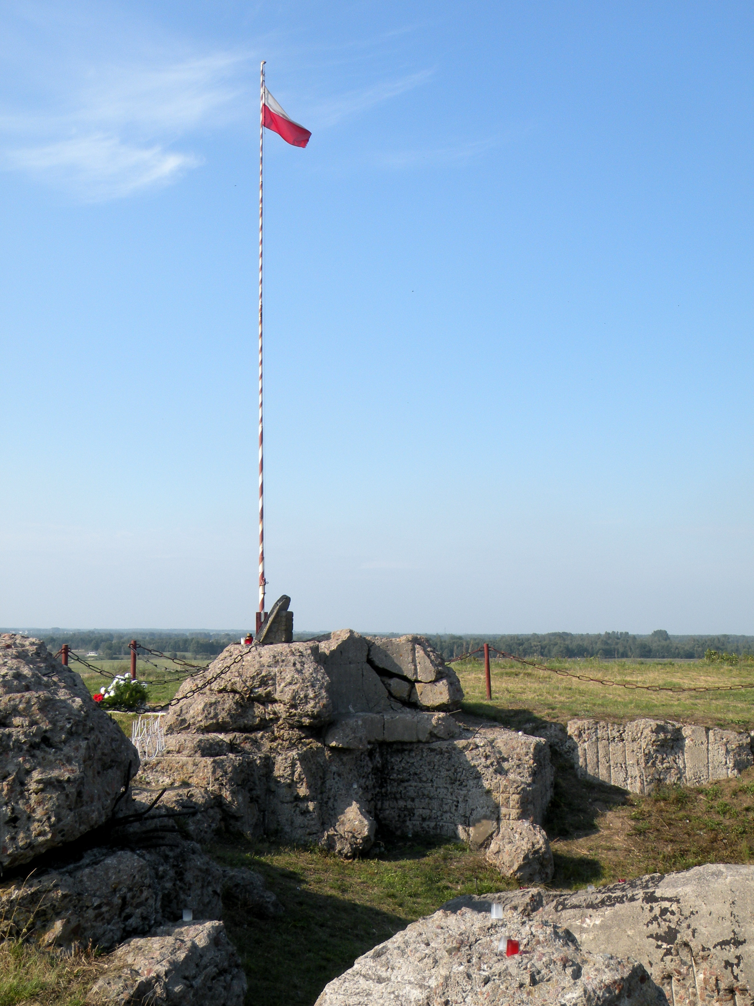 The captain Wladyslaw Raginis's shelter (location: near village Strekowa Gora, pow. lomzynski, woj, podlaskie, Poland)